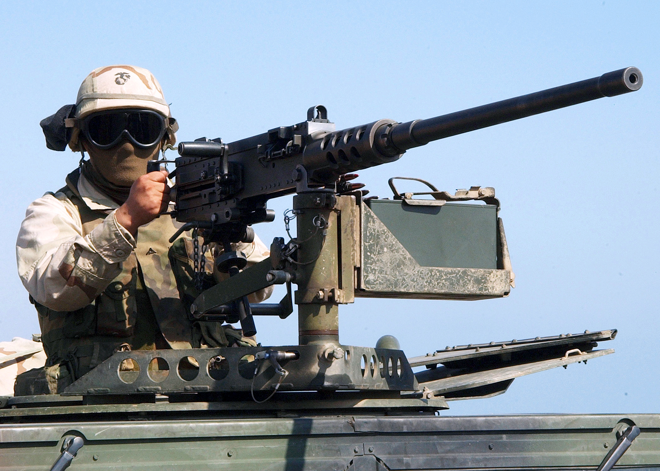 Djibouti, Africa, Central Command Area Of Responsibility (AOR) - Central LCpl. Paul Rodas assigned to 22nd Weapons Company, 24th Marine Expeditionary Unit (MEU) Special Operations Capable (SOC), mans a .50 caliber machine gun as part of a security force during exercise Image Nautilus. The 24th MEU is on a six-month deployment conducting missions in support of Operation Enduring Freedom.